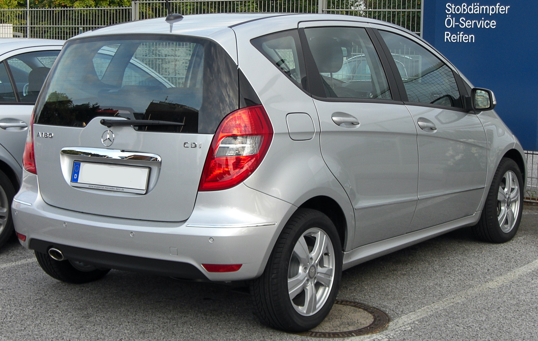 Mercedes A180CDI Facelift